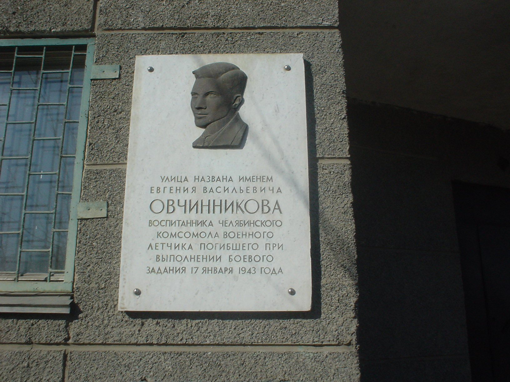 Memorial table at house, Ovchinnikova street, Chelyabinsk, Russia